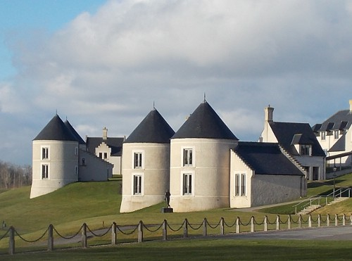 Lodge buildings beside the lake at the Lough Erne Resort in County Fermanagh in Ireland, location of the 39th G8 summit in June 2013.